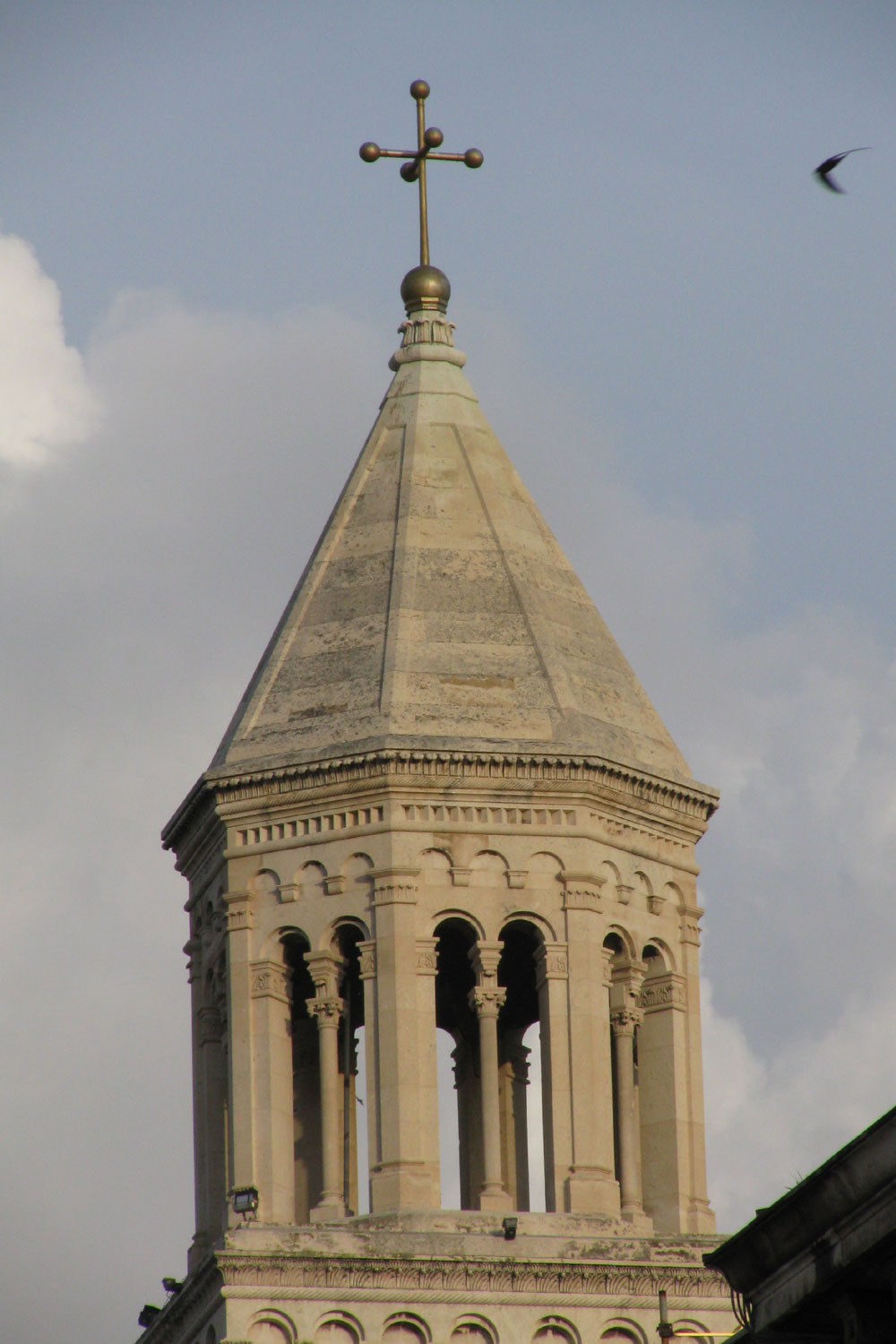 Top of the Cathedral of St. Dujam, Split, Croatia, seen from Pjaca square